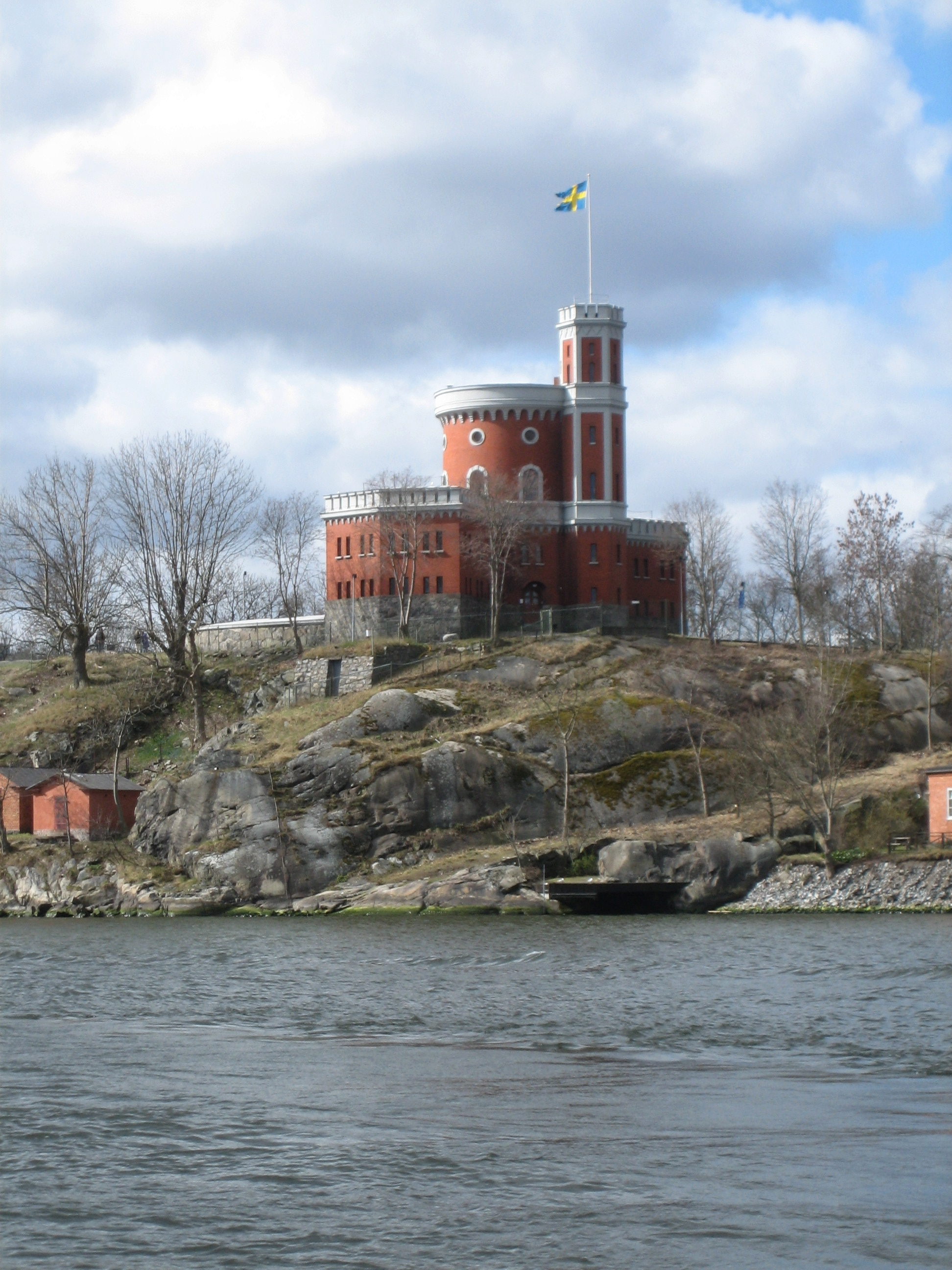 Kastellholmen is a small island in front of Stockholm, Sweden.